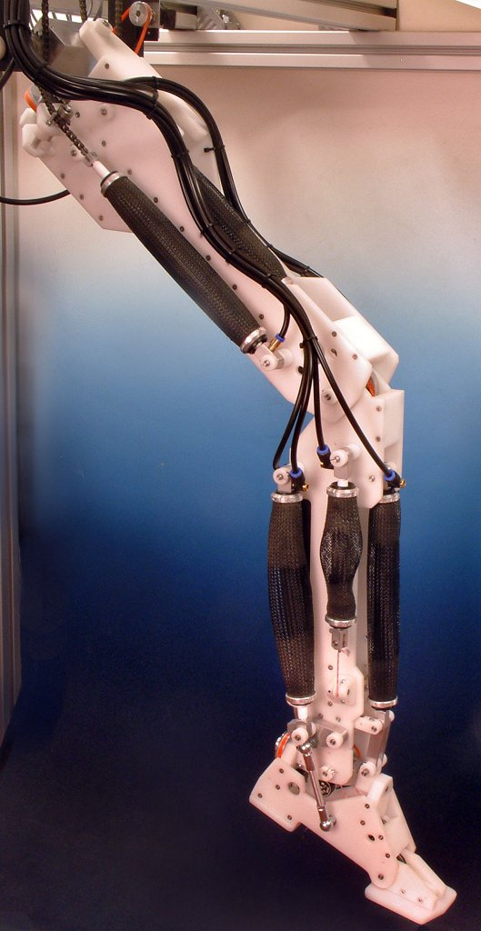 Robot leg, with Air Muscles. Designed and built by David Buckley for The Shadow Robot company Ltd.